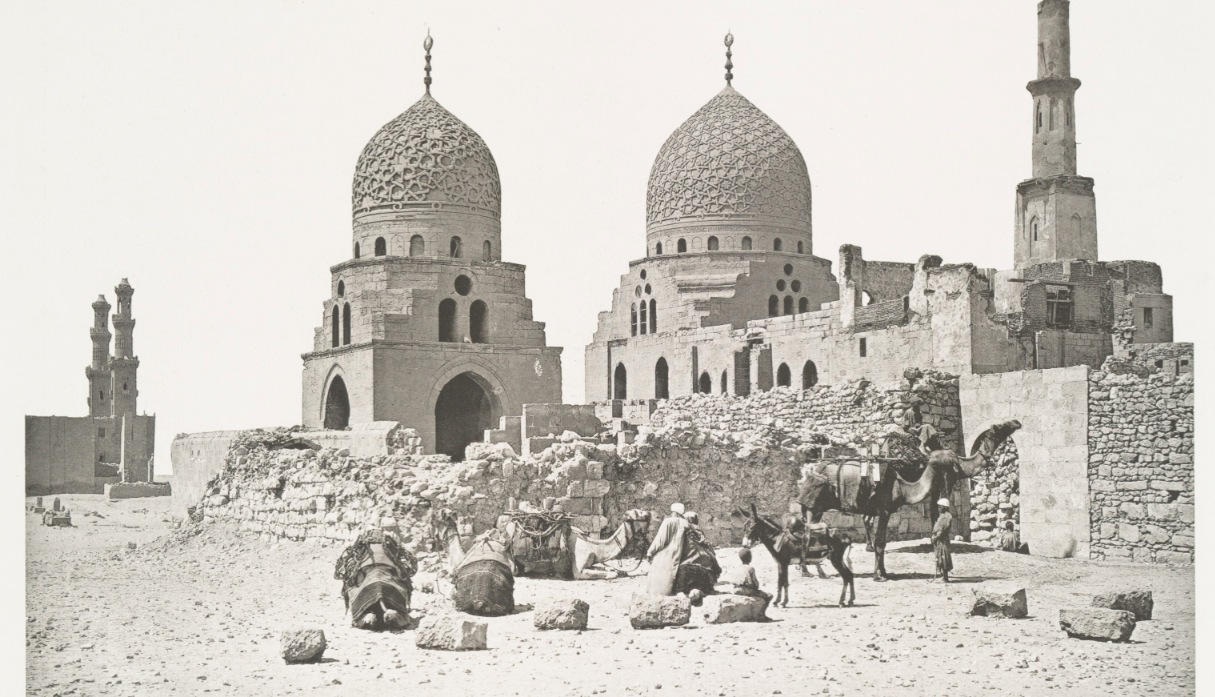 Mausoleum complex of Sultan Barsbay